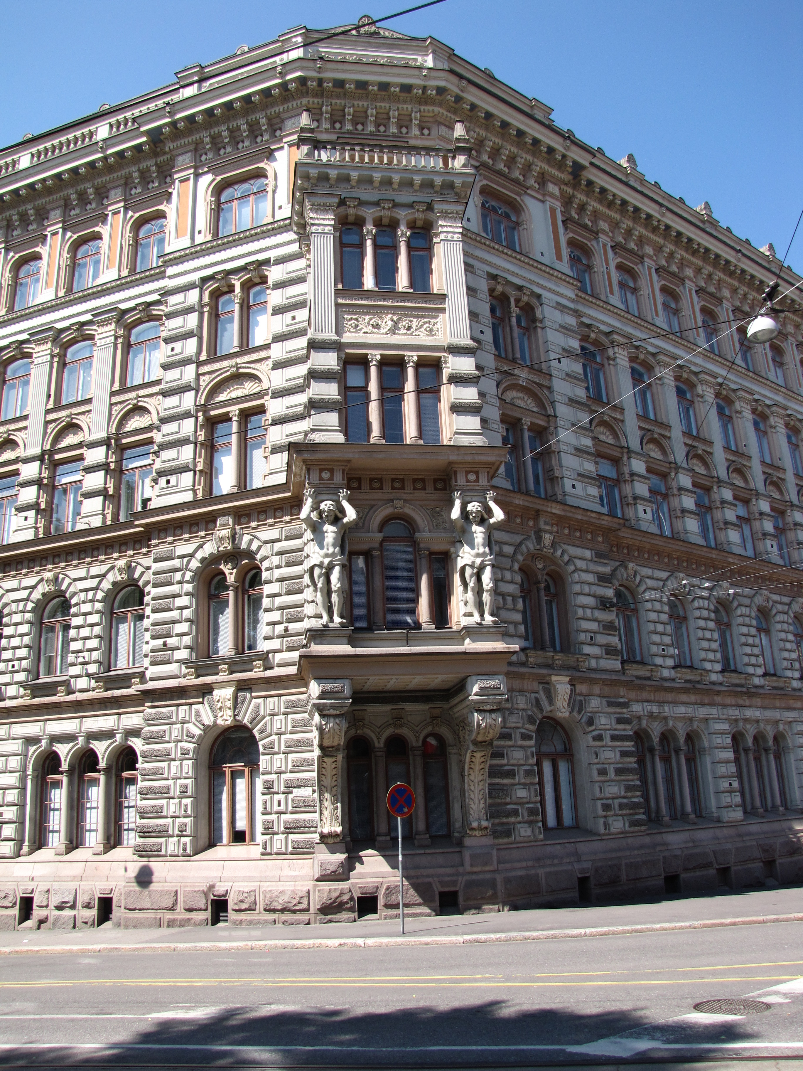 Insurance company Kaleva building, Erottaja 2, built 1889. The atlantes of the first level were sculpted by Robert Stigell (1852 - 1907).